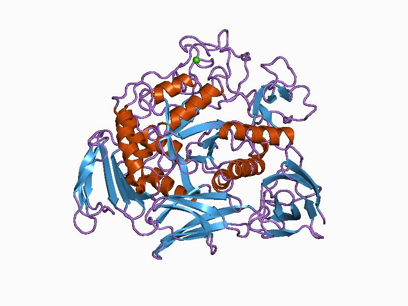 Cartoon representation of the molecular structure of protein registered with 1cyg code.